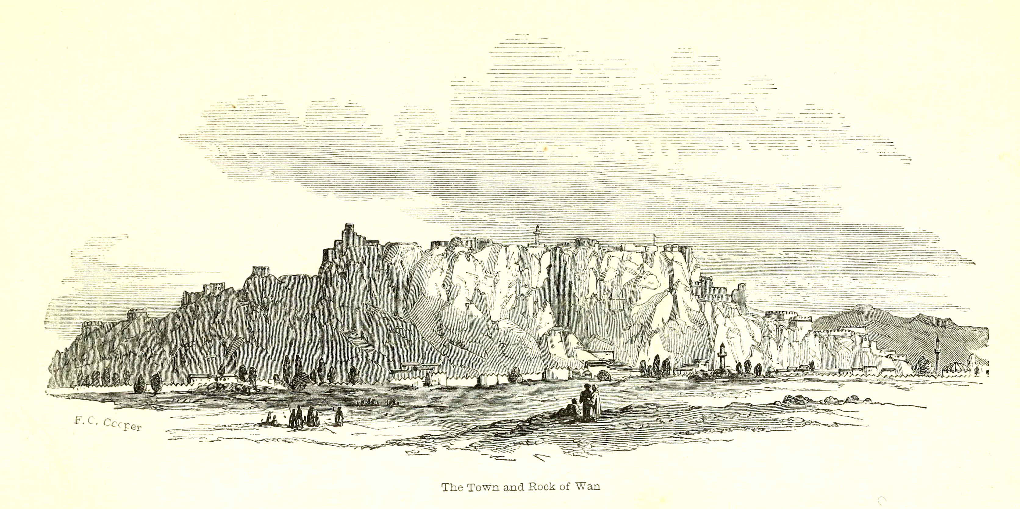 Van, Turkey